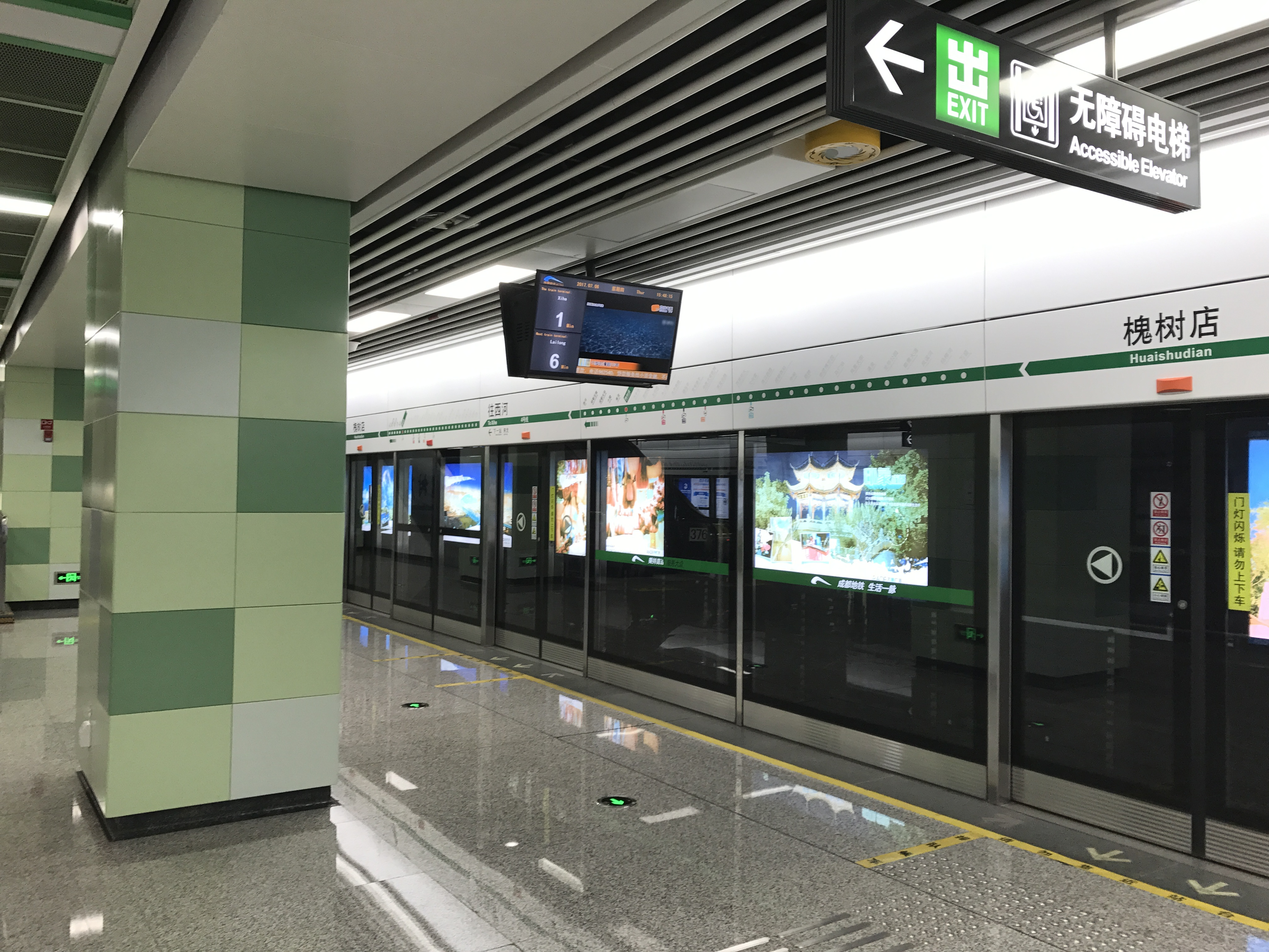 Platform of Line 4 in Huaishudian Station, Chengdu Metro